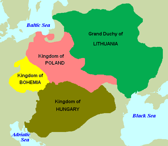 Jagiellon realm on 15th century. Kingdoms of Poland, Hungary, Bohemia and Grand Duchy of Lithuania.